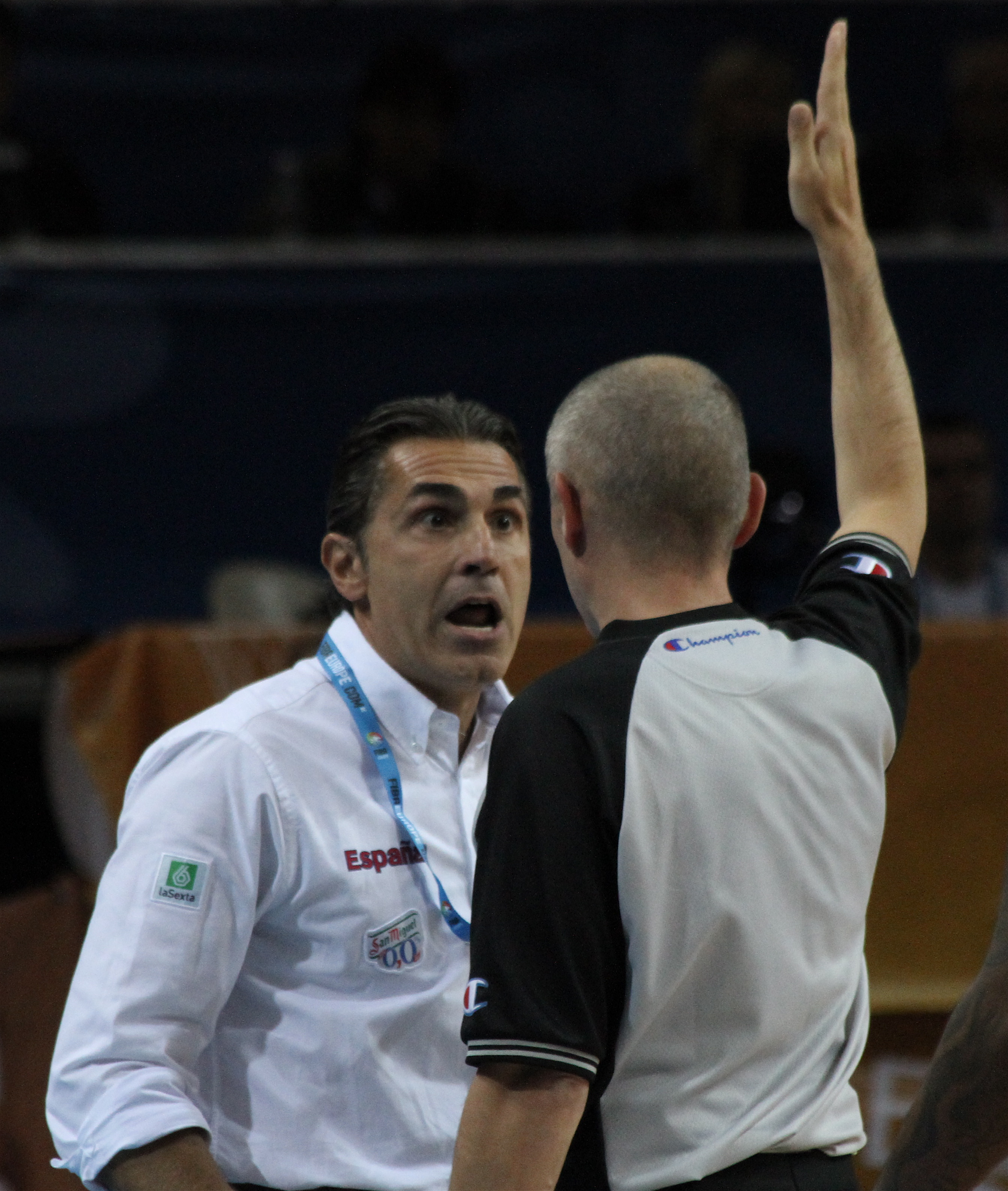 Spain national basketball team coach Sergio Scariolo at EuroBasket 2011.